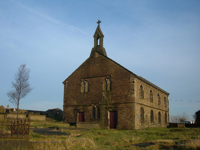 St Thomas Friarmere church above Delph, in Saddleworth, Greater Manchester, England. The church is also known as "Heights Chapel".